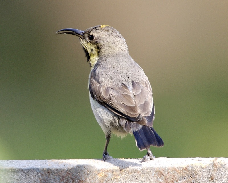 Purple Sunbird Cinnyris asiaticus, nominate race Cinnyris asiaticus asiaticus. This is an eclipse male. While I have seen photos of the male in its full glory , the yellow patch on the crown is not commonly visible. None of the guides I have referred to mention it as a distinguishing mark. Presumably with all the features and colors being so obvious in the field this minor mark is of relatively little importance. One suggestion is that this an artefact - pollen from flowers visited. 5 January 2009, Jhalana Dungri, Jaipur, India 690V8678